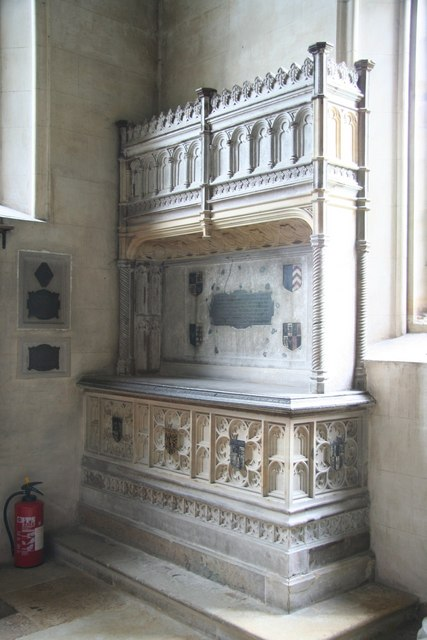 Tomb of Sir William Sydney, near to Penshurst, Kent, Great Britain. Tudor tomb in the Sidney Chapel of St.John the Baptist's church to Sir William Sydney who died in 1553